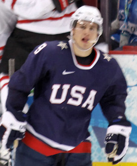 Zach Parise, the United States during the 2010 Winter Olympics